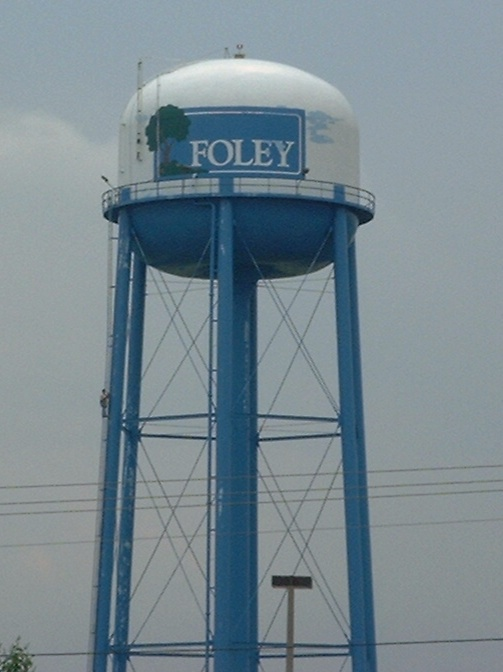 The Foley, Alabama water tower.